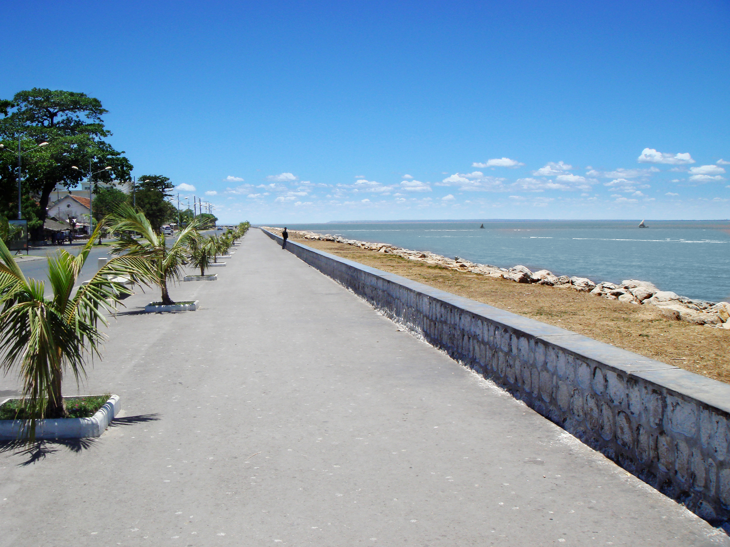 The Boulevard Pointcarre (promenade) in Mahajanga, looking south. Empty during the day, the street fills up with people at night who frequent the restaurants and food stands or are just promenading.